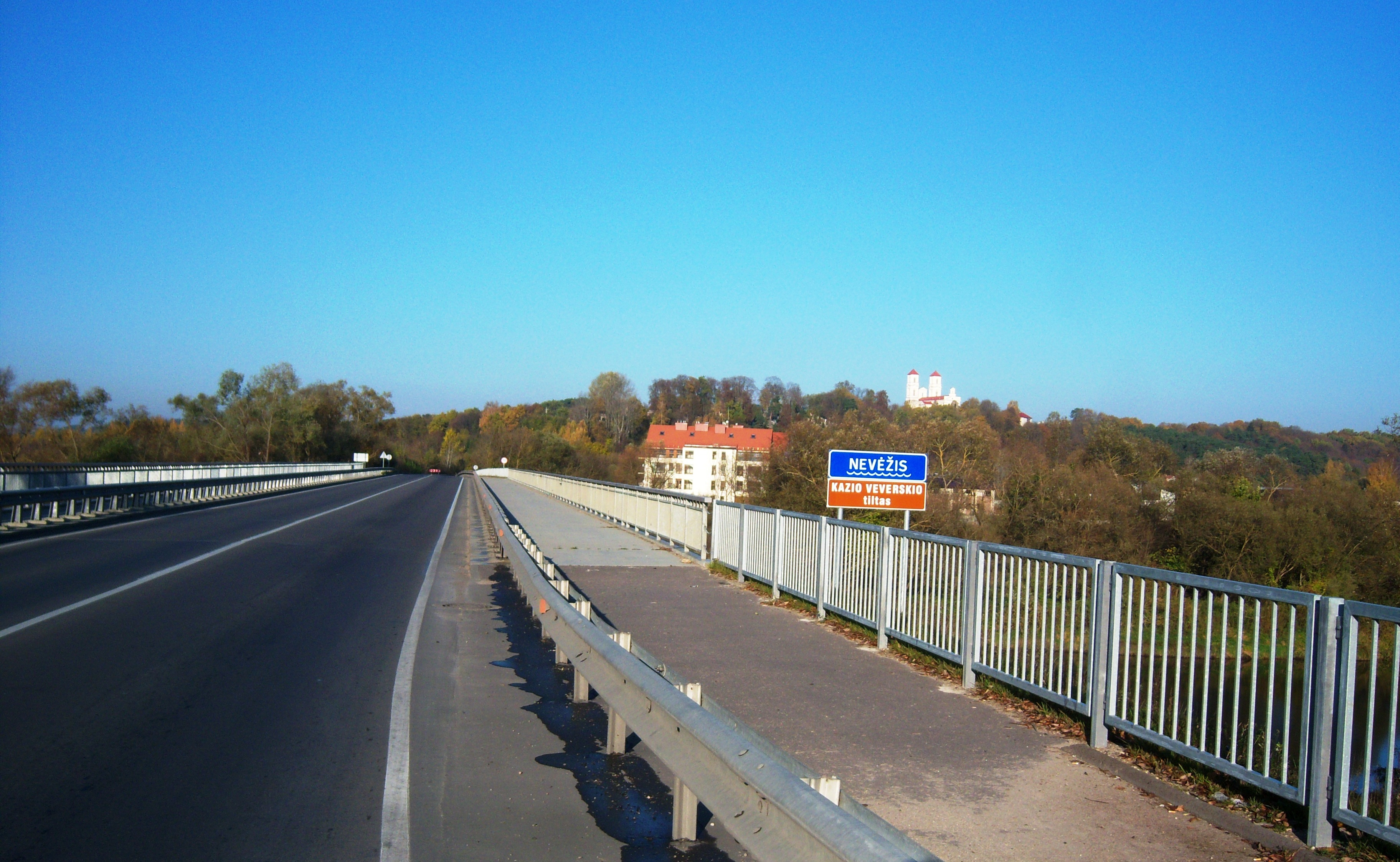 On the Raudondvaris Bridge over Nevėžis River, Kaunas, Lithuania